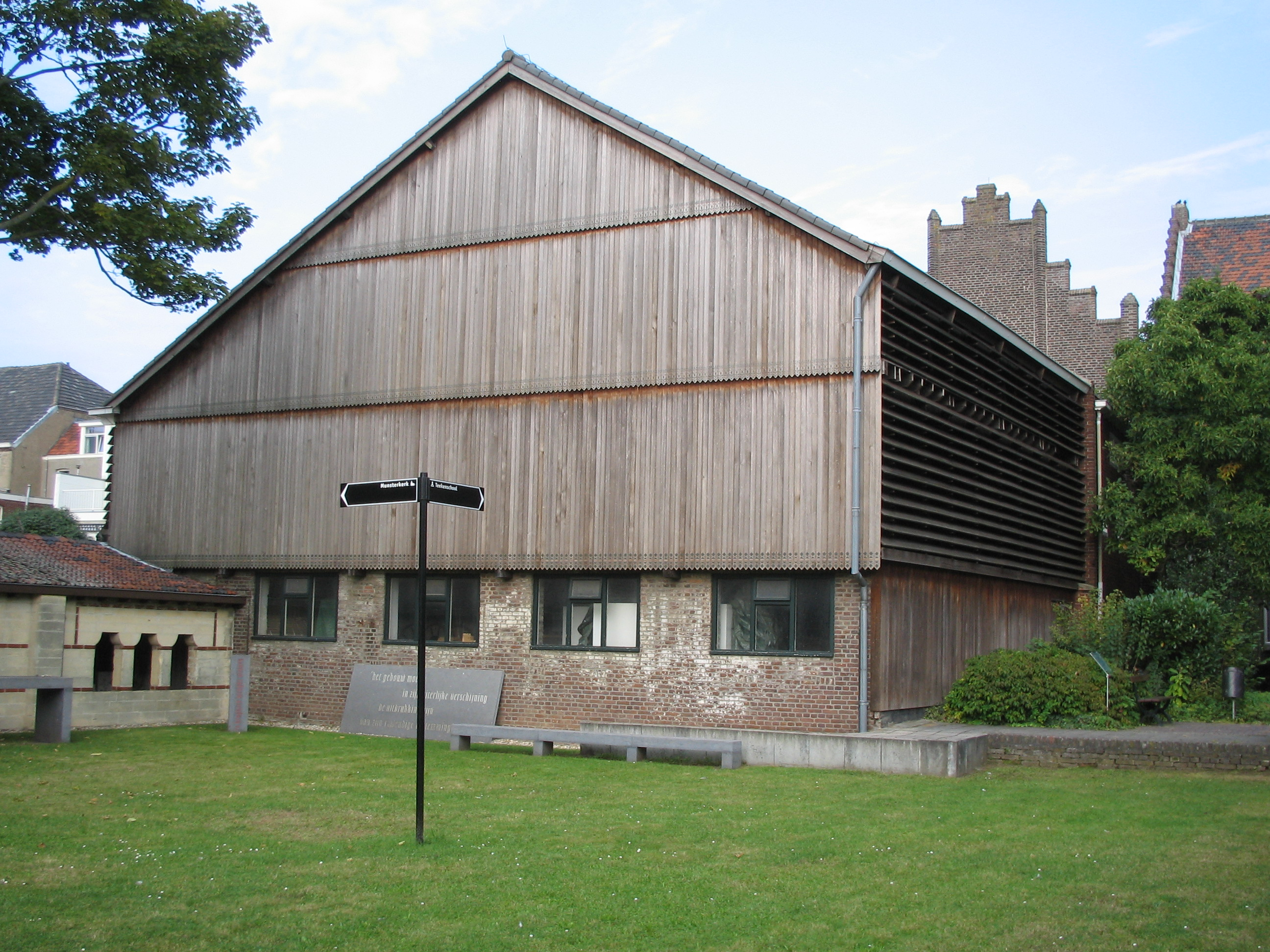 Stedelijk Museum Roermond, droogloods (drying shed).